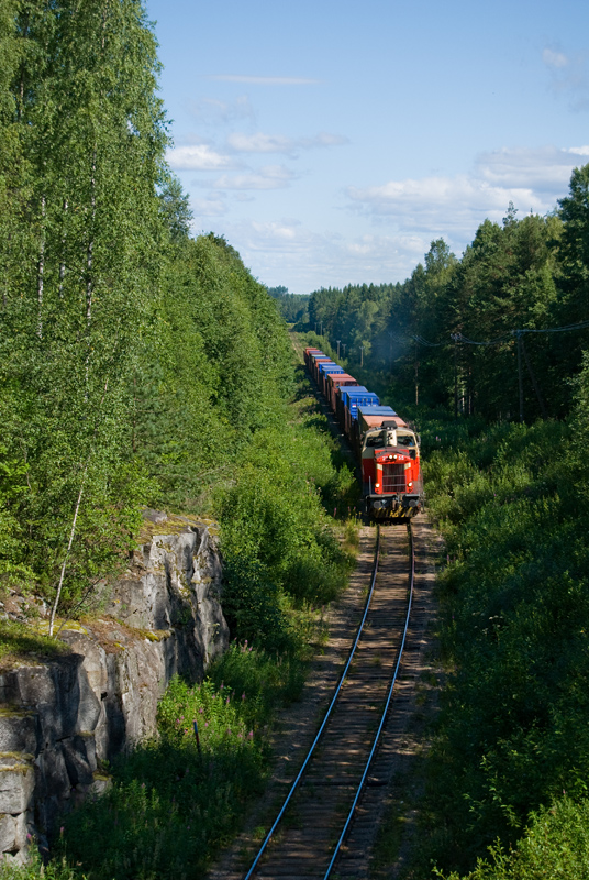 Freight train T2872 approaching Vierumäki in Heinola, Finland. VR Class Dv12 locomotive no. 2755.